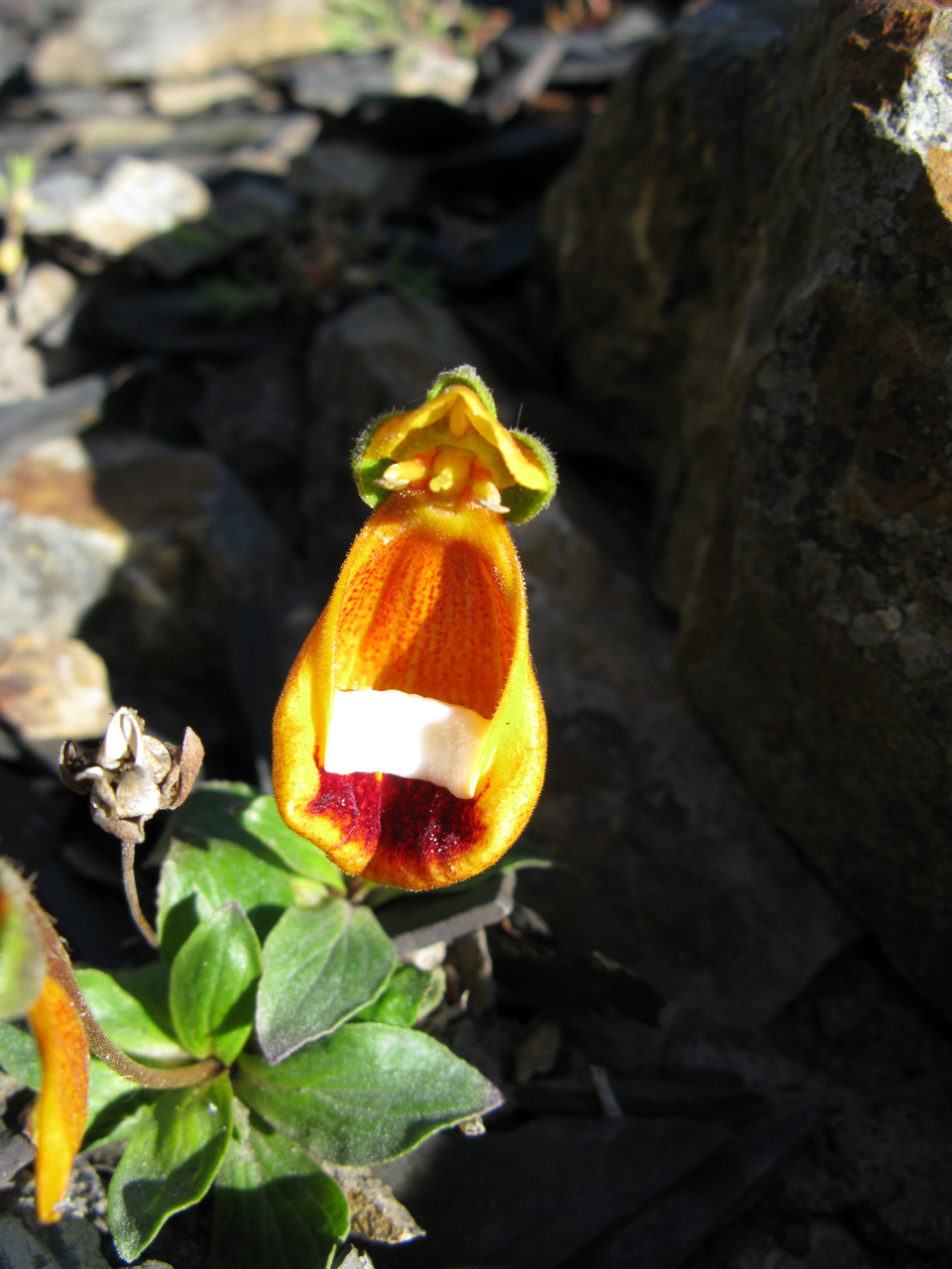 Calceolaria uniflora (Chile - Torres del Paine)